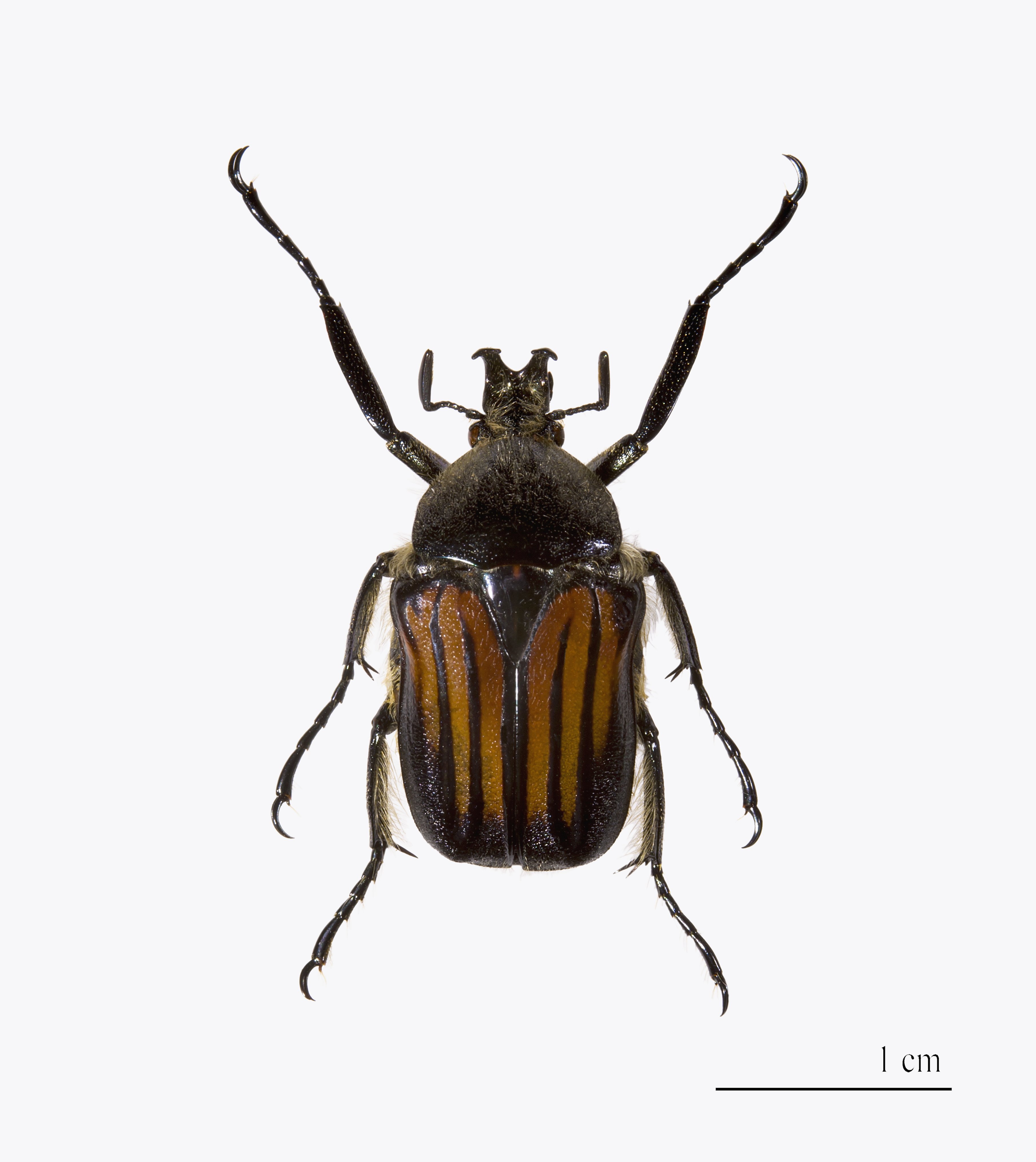 Male specimen Locality: Edomex, Ixtapan de la Sal, Mexico